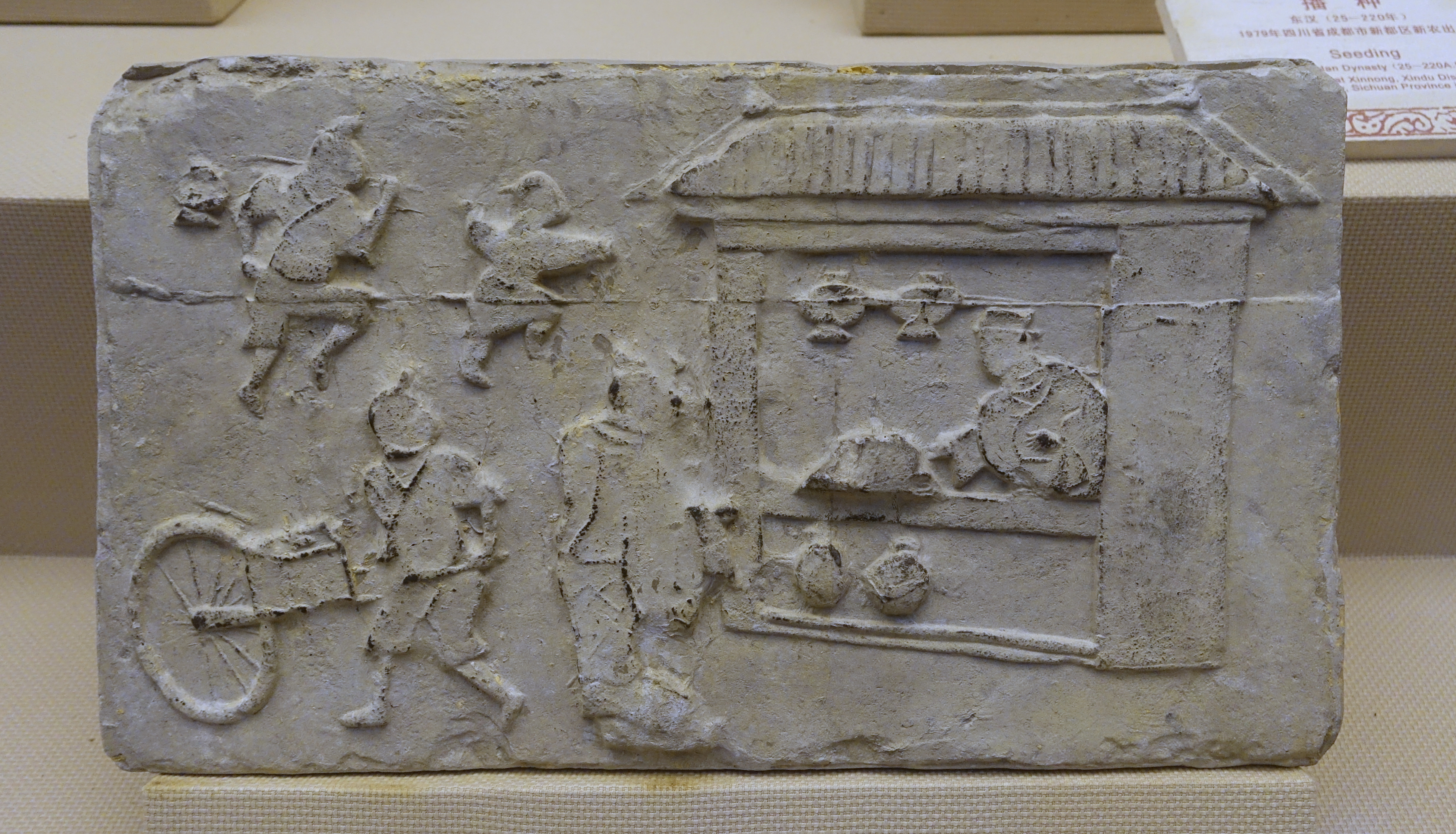 Exhibit in the Sichuan Provincial Museum (四川省博物院), also known as the Sichuan Museum, 251 Huanhua S Road, Chengdu, Sichuan, China. This work is old enough so that it is in the public domain.